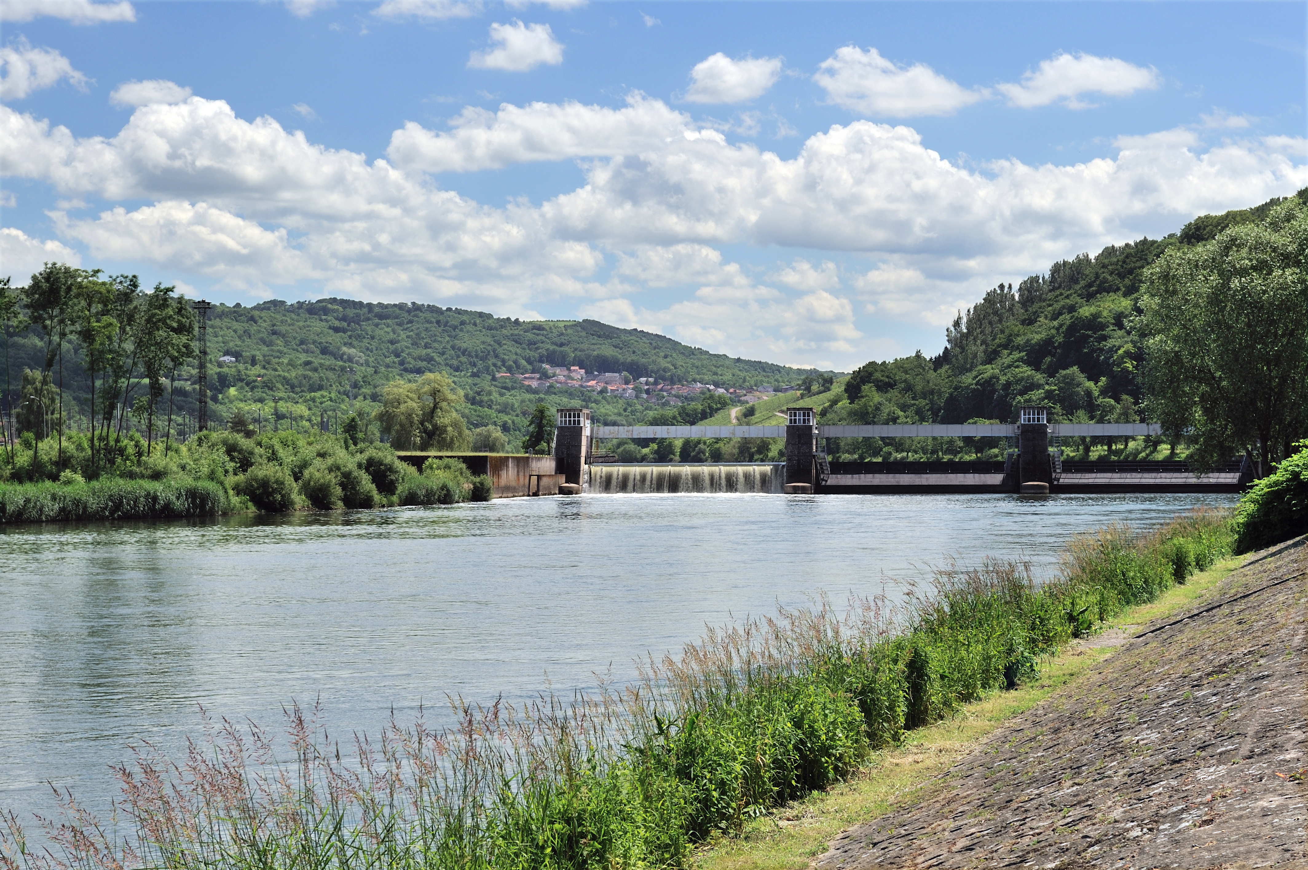 The Moselle river at Schengen. In the distance: the Schengen-Apach Dam and the village of Apach (France). The border between France and Luxembourg runs through the middle of the Moselle)